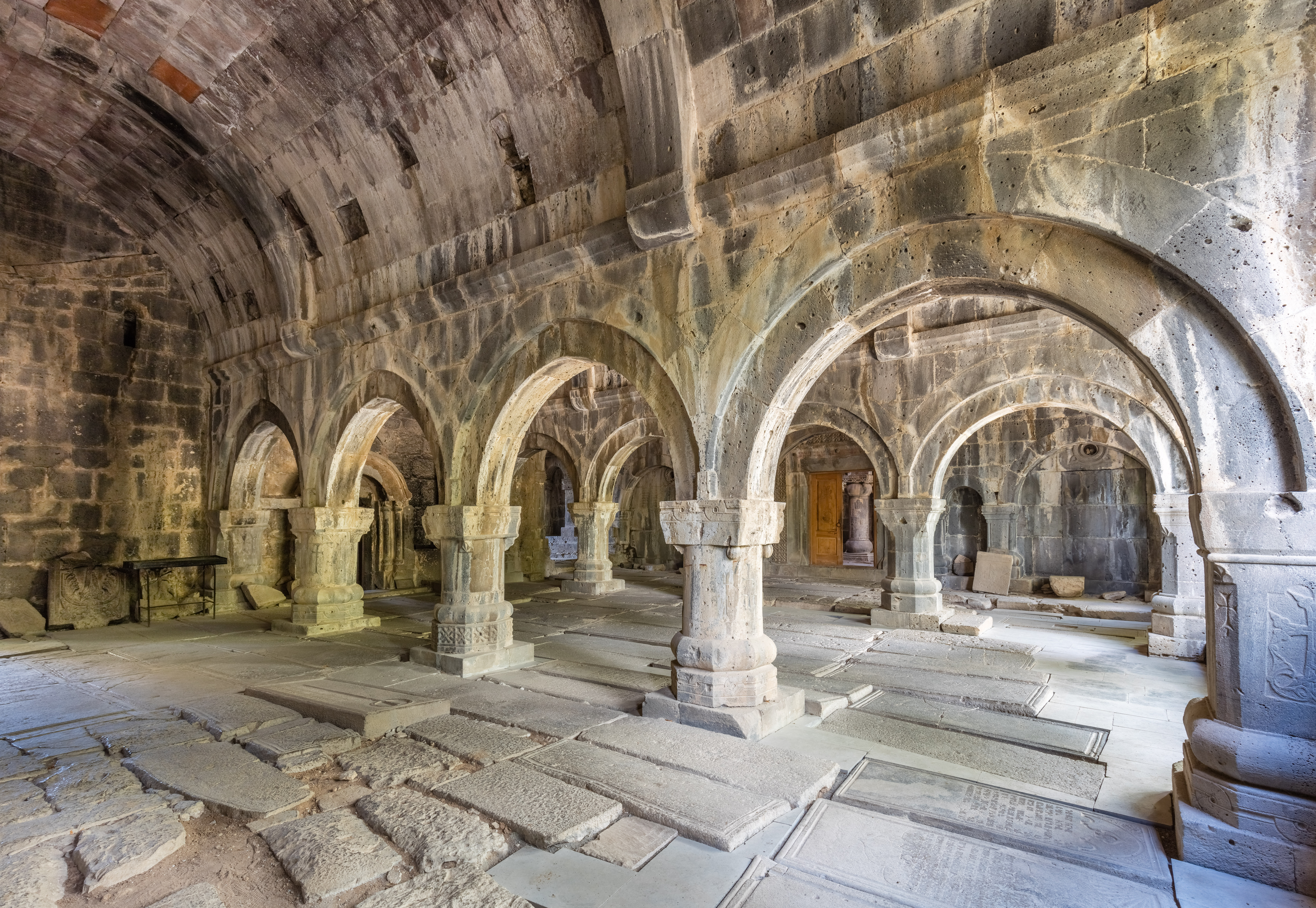 Arches in the interior of the church of Holy Mother of God Narthex within the Sanahin Monastery complex, Lori Province, Armenia. Sanahin literally translates from Armenian as "this one is older than that one", presumably representing a claim to having an older monastery than the neighbouring Haghpat Monastery. The Armenian Apostolic monastery was built in the 10th century in Armenian style and has become a tourist magnet.